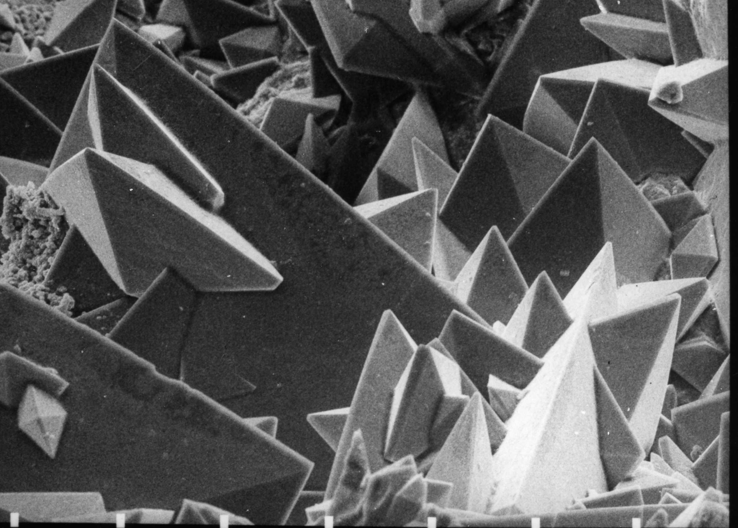 Surface of a kidney stone with tetragonal crystals of Weddellite (calcium oxalate dihydrate). Scanning Electron Micrograph (SEM) taken at 30 KV. Horizontal length of the picture represents 0.7 mm of the figured original (image number 21).